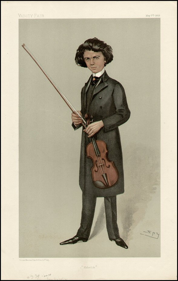 Caricature of J Kubelik.